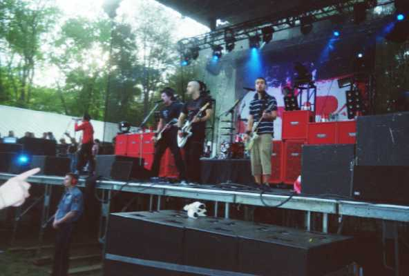 Simple Plan in performance in Agawam, Massachusetts in 2005.